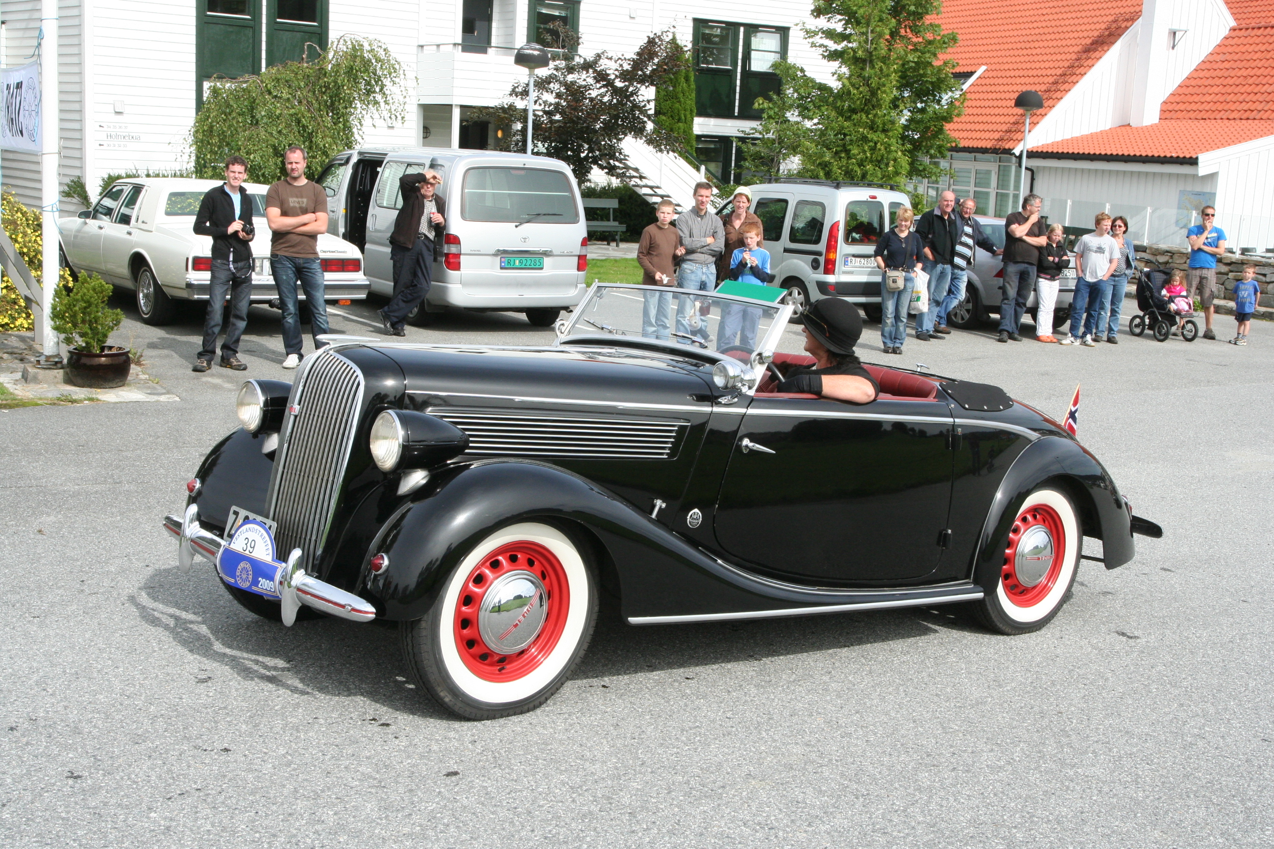 Captured at a Veteran-Car meeting on August 1, 2009 in Utstein, Norway. Sissel was the owner at the time.